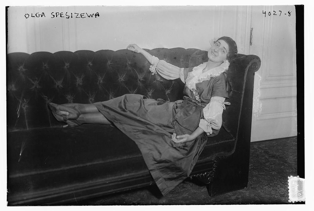 Olga Spessivtseva in 1917